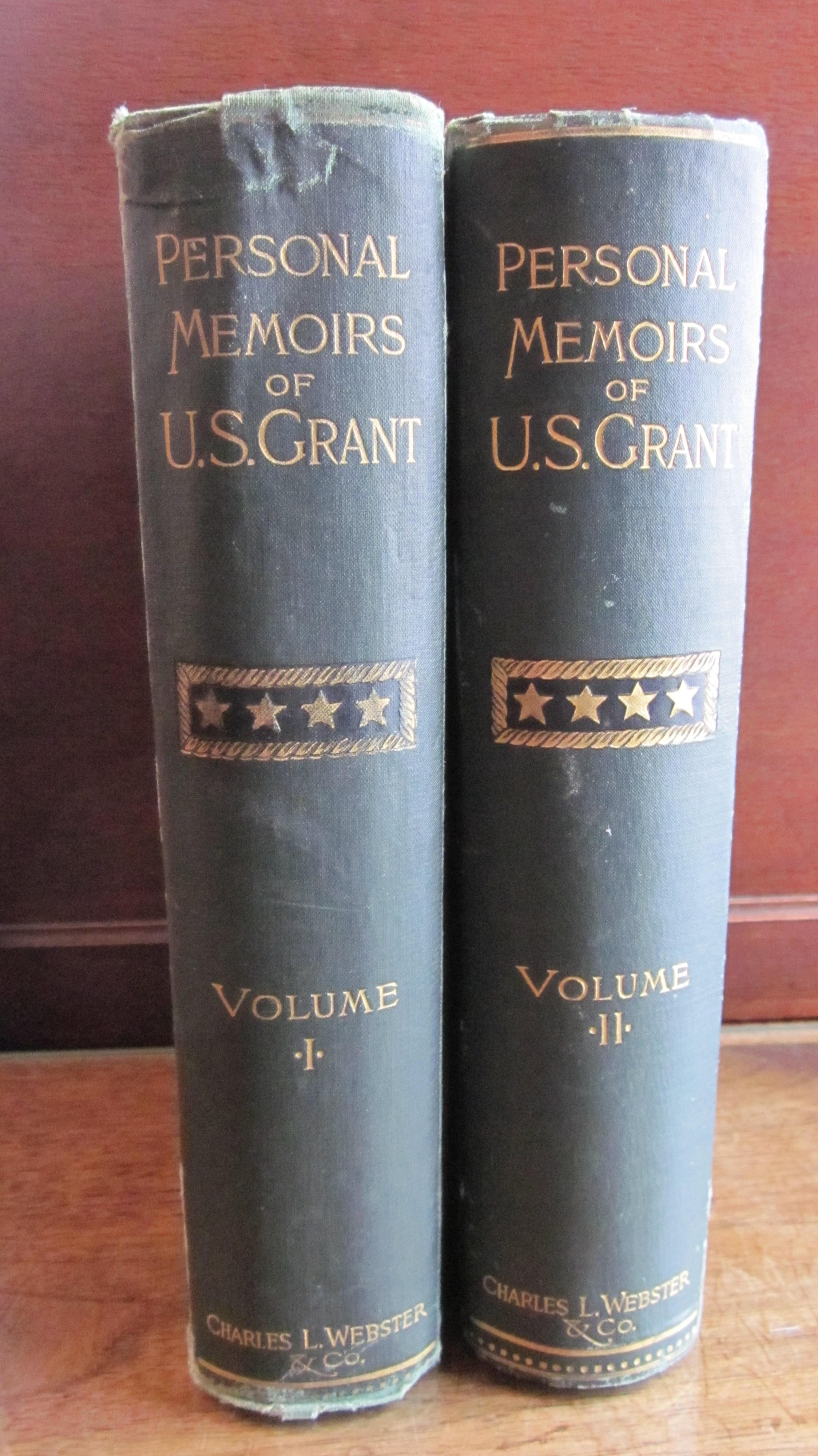 An original copy of Personal Memoirs of Ulysses S. Grant by Ulysses S. Grant, Vol. 1 and 2, published in 1885, at the General Ames Library in the Marines' Memorial Hotel in San Francisco.